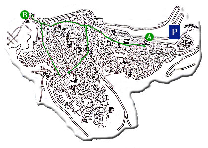 Holy Week in Enna, Italy-Settimana Santa ad Enna, Italia